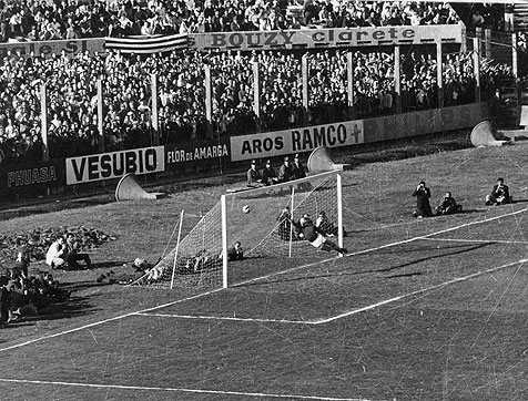 The goal scored by "Chango" Cárdenas to goalkeeper Fallon during the match that Racing Club (Argentina) beat 1-0 Celtic (Scotland), winning the Intercontinental Cup in 1967.